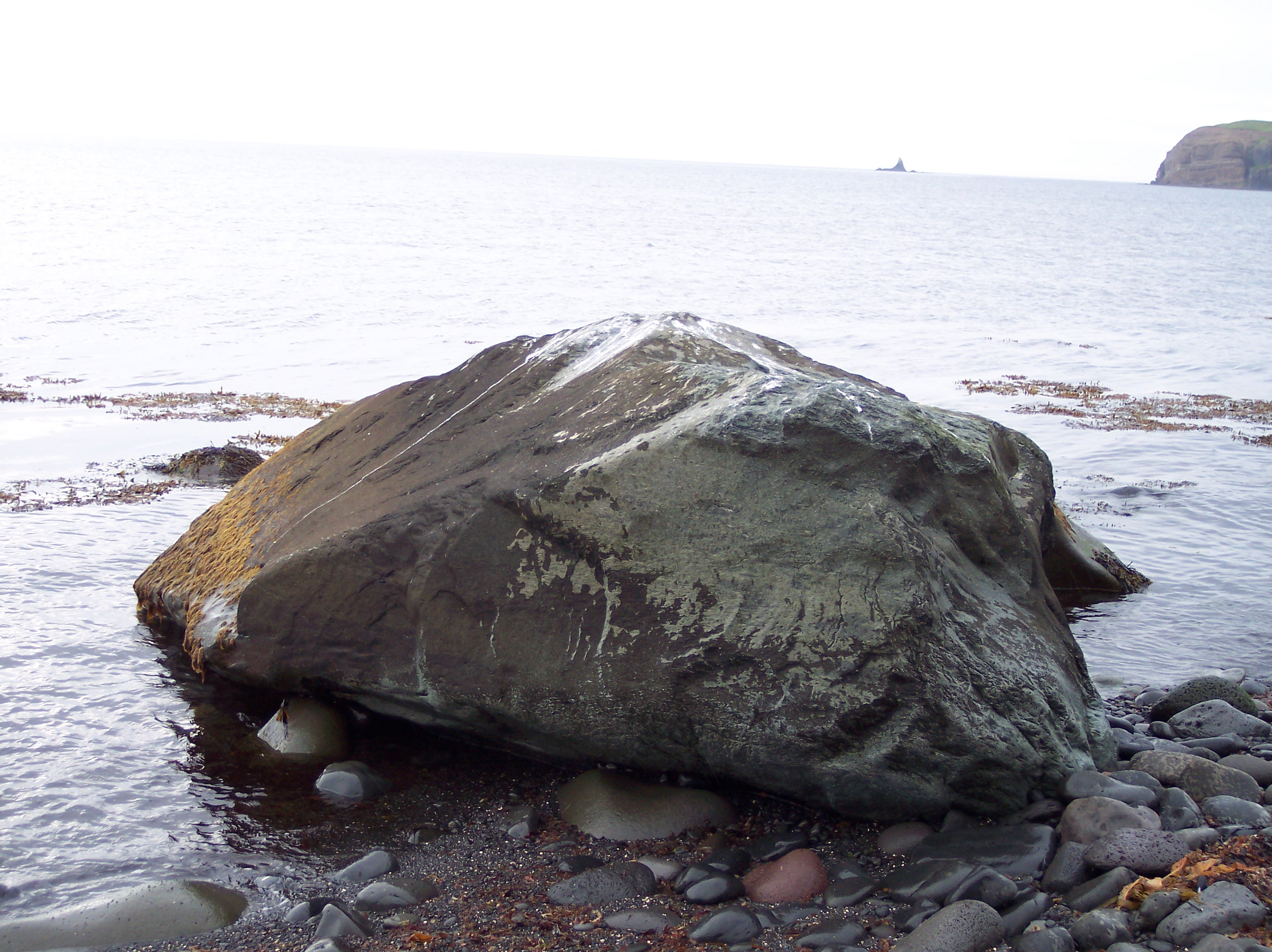 The greenlandish rock, Tjörnes, Iceland. Grand rock at the coast between Ytri-Tunga and Hallbjarnastaðir, at the Tjörnes peninsula. The rock is belived to have drifted by icebergs from Greenland, hence its name.